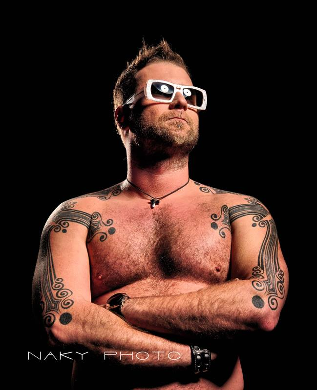 Zoltán Herczeg published prestige photo. Hungary. 2011.